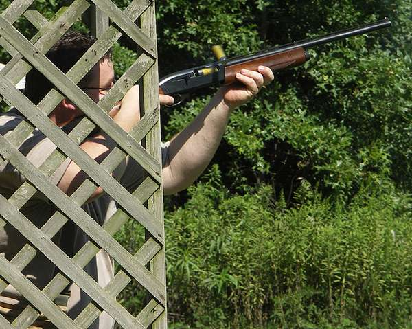 Shooter in Sporting Clays "Station", Shotgun, Remington 1100 'Special Field' 20 gauge, Clay Pigeon, Autoloader function, Cartridge Ejection